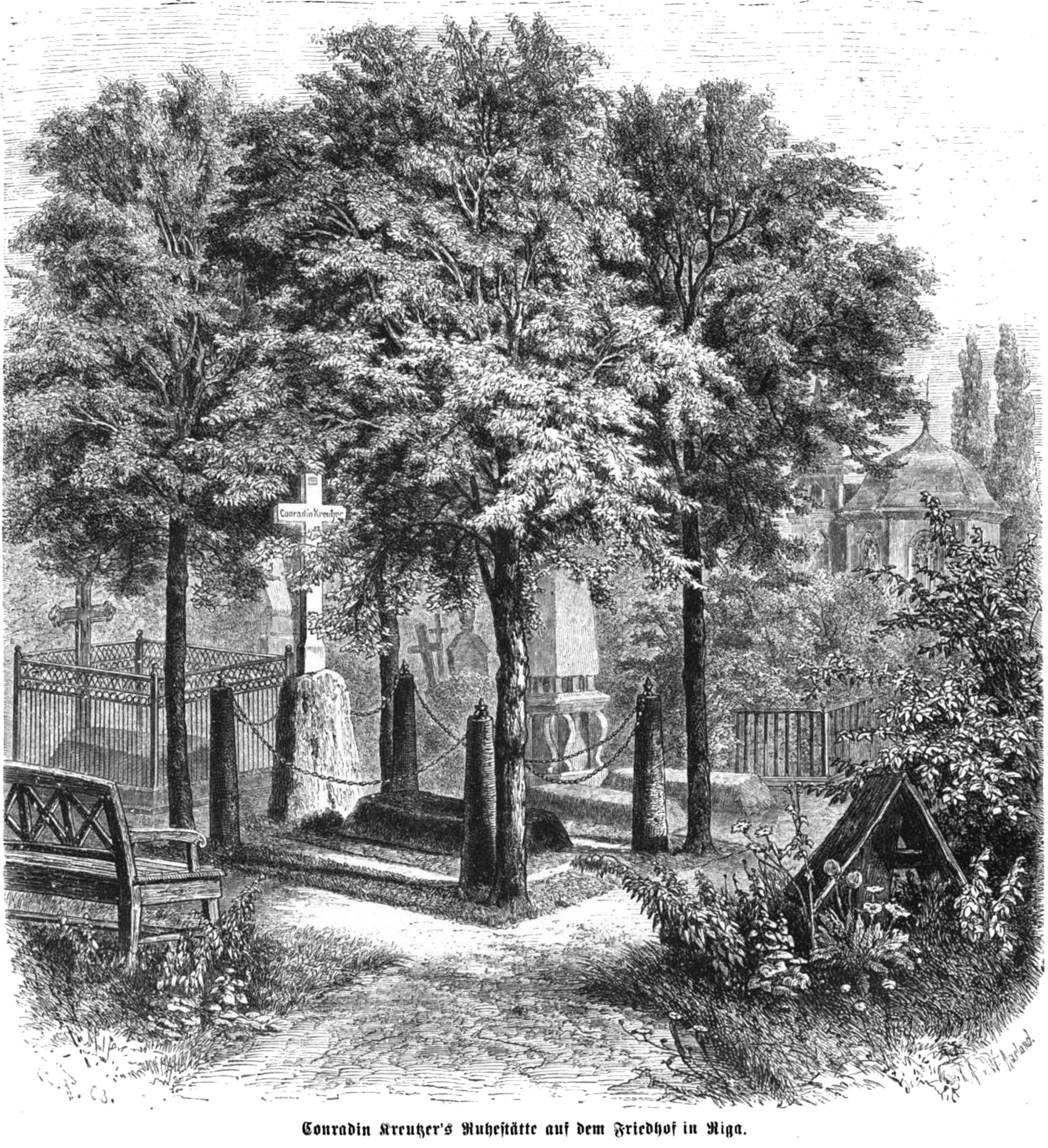 caption: "Conradin Kreutzer’s Ruhestätte auf dem Friedhof in Riga."